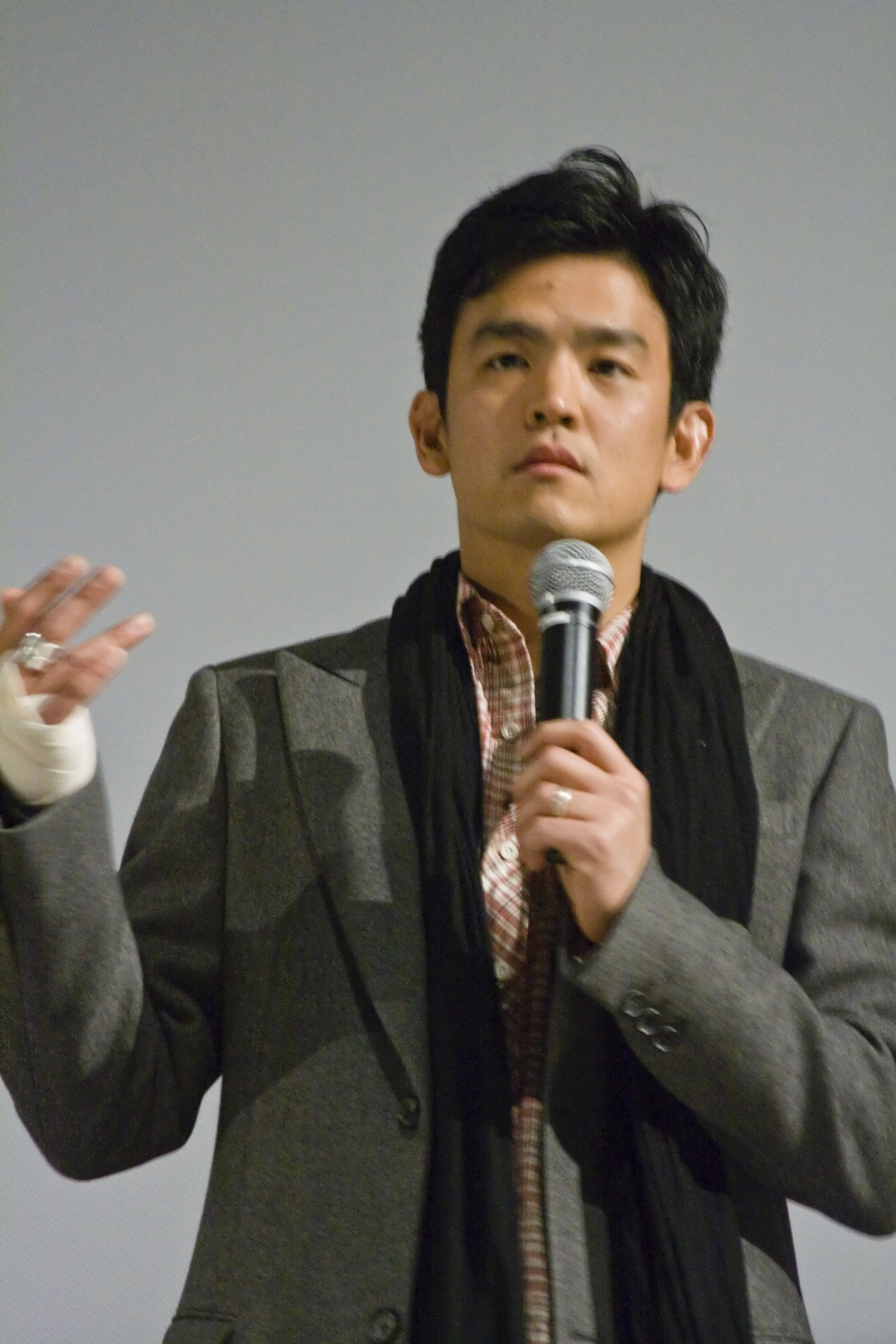 John Cho promoting H&K2